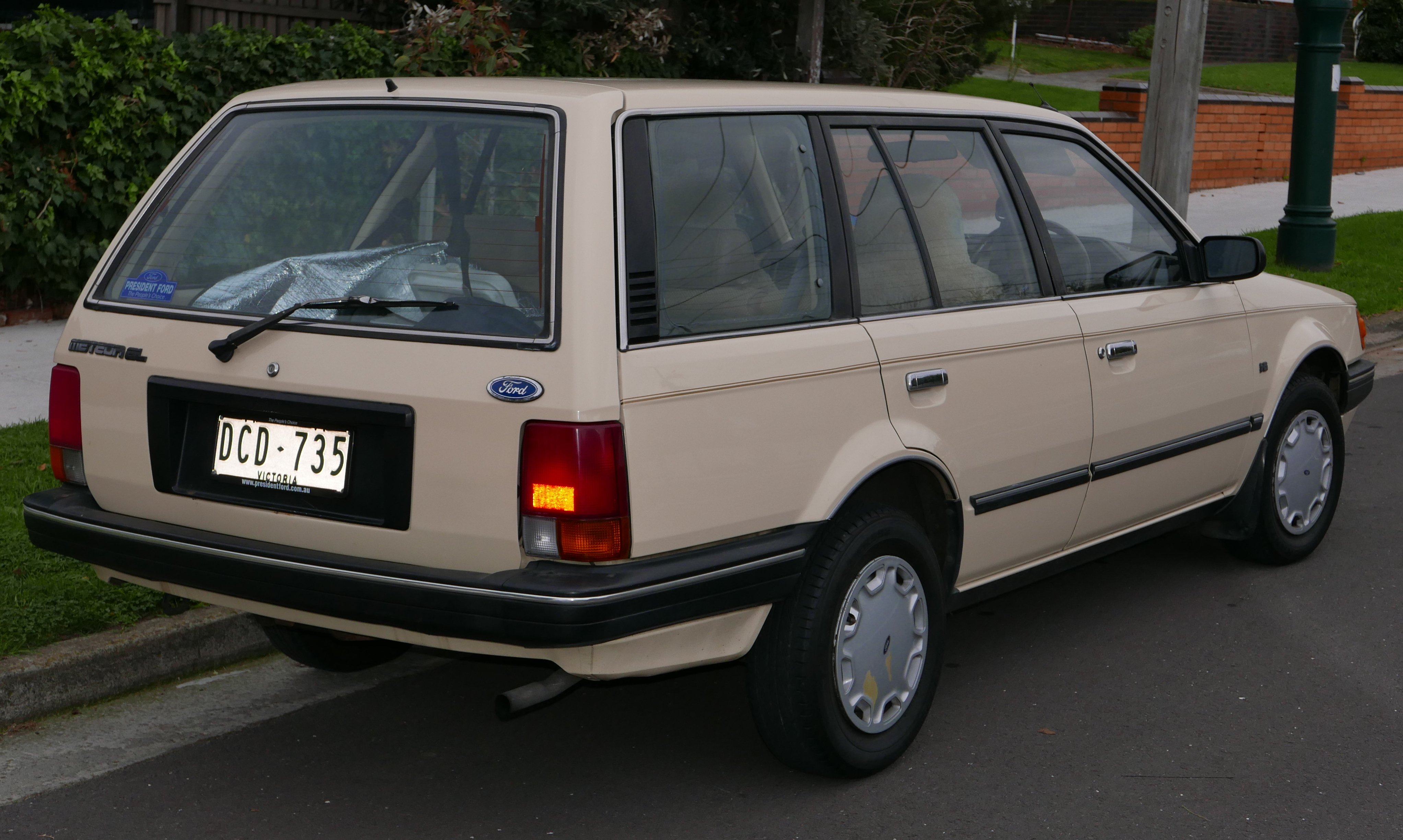 1987 Ford Meteor (GC) GL station wagon. Photographed in Hampton, Victoria, Australia. Vehicle registration enquiry results Jurisdiction Victoria Registration DCD735 Chassis code Not available Engine code B6162268 Compliance date Not available Year of manufacture 1987